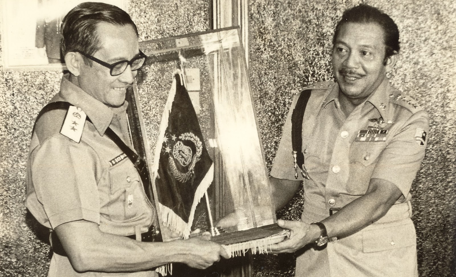 Chief of Indonesian National Police Lieutenant General Awaloedin Djamin received an honorary visit by Chief of Philippines Police Maj. Gen. Fidel V Ramos (left), December 1979. PHOTO: DOC. KOMPAS / Indonesian National Police Information Agency. (Note KSP: Fidel Ramos was later elected President of the Philippines in 1992—1998).